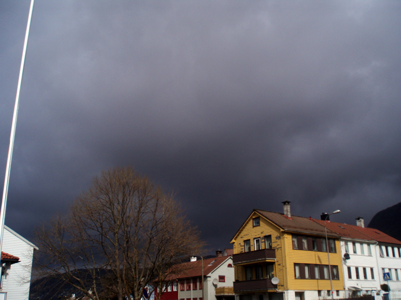 Volcanic ash clouds over Bergen, Norway on April 15th 2010, following the 2010 eruption of Eyjafjallajökull, a volcano in Iceland